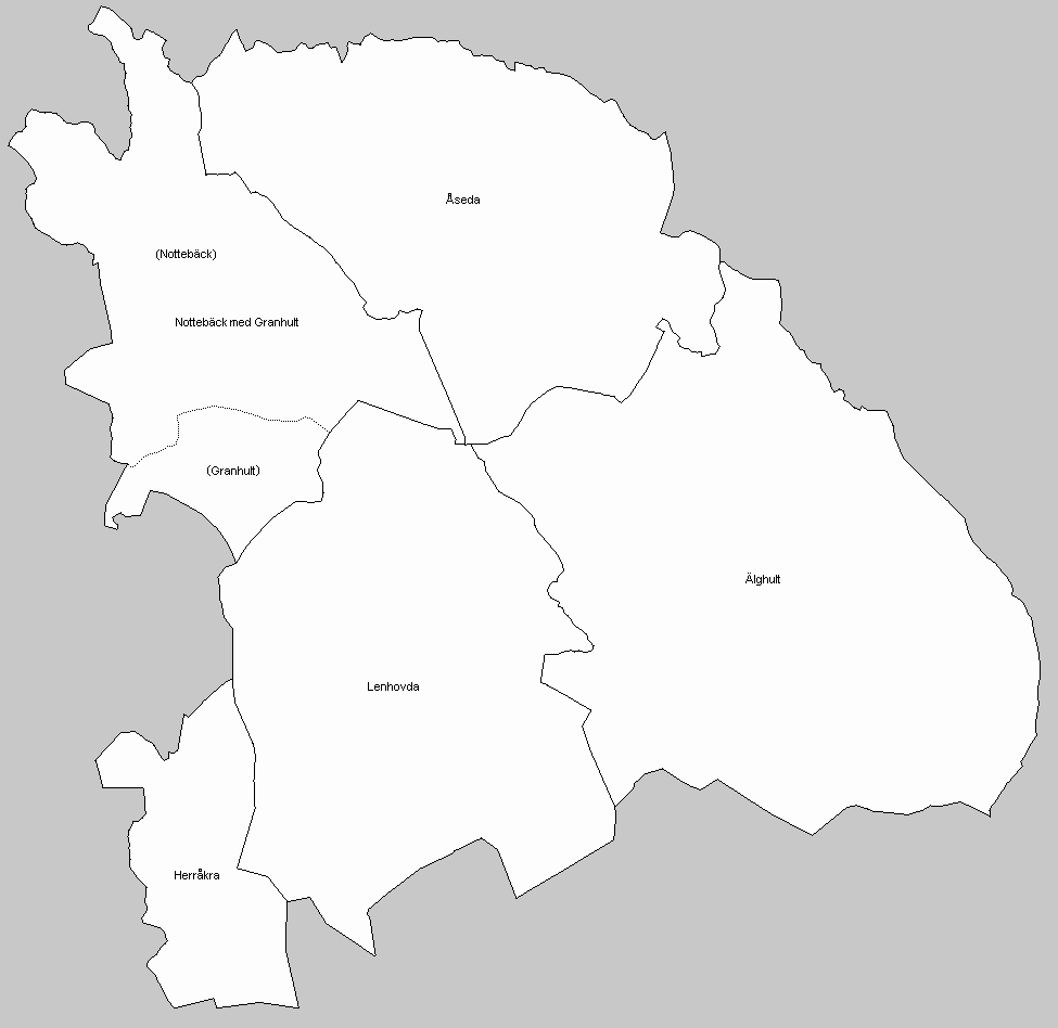 Parishes in Uppvidinge municipality